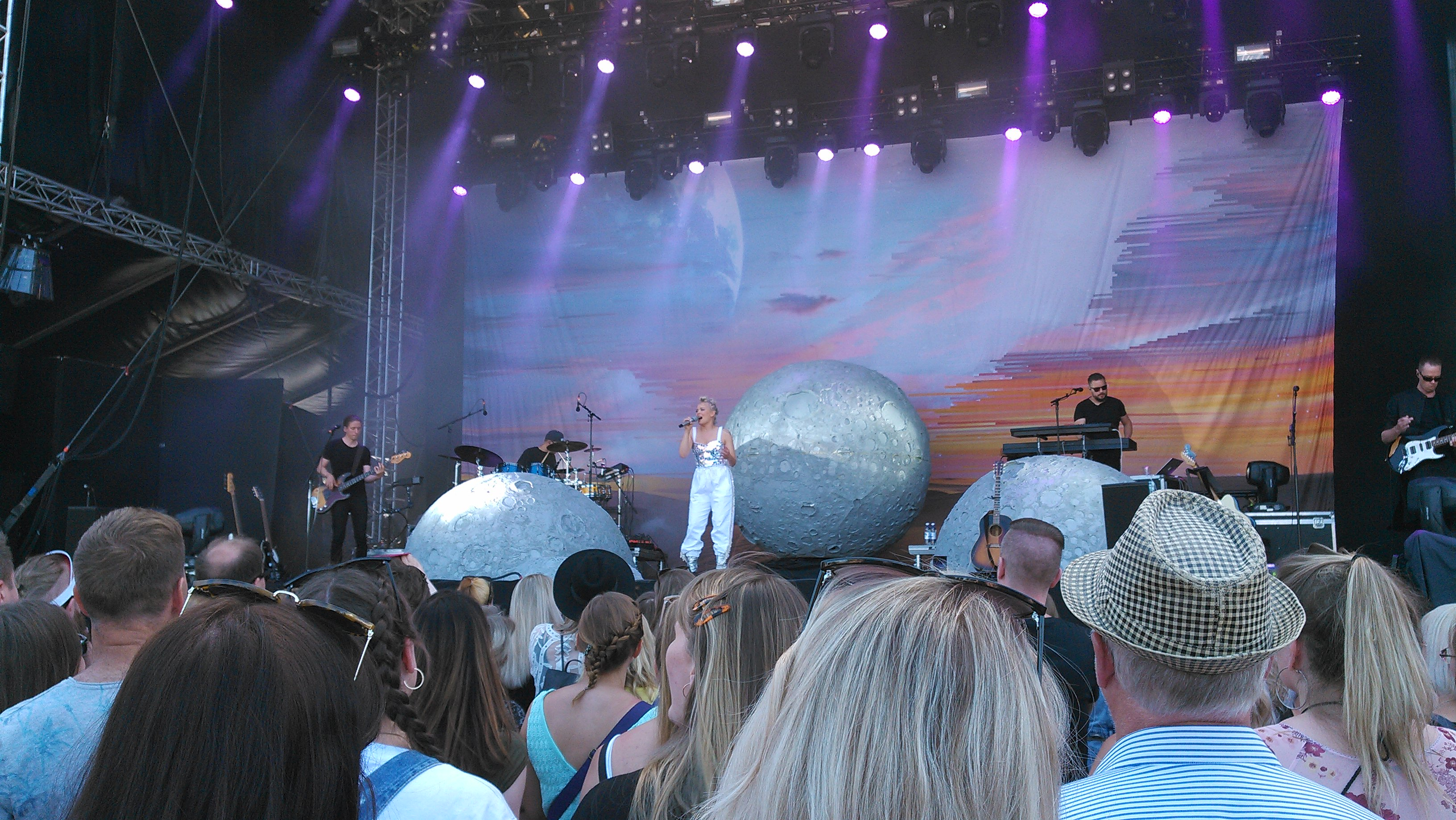 Anna Puu at Tammerfest, Tampere, July 20, 2019